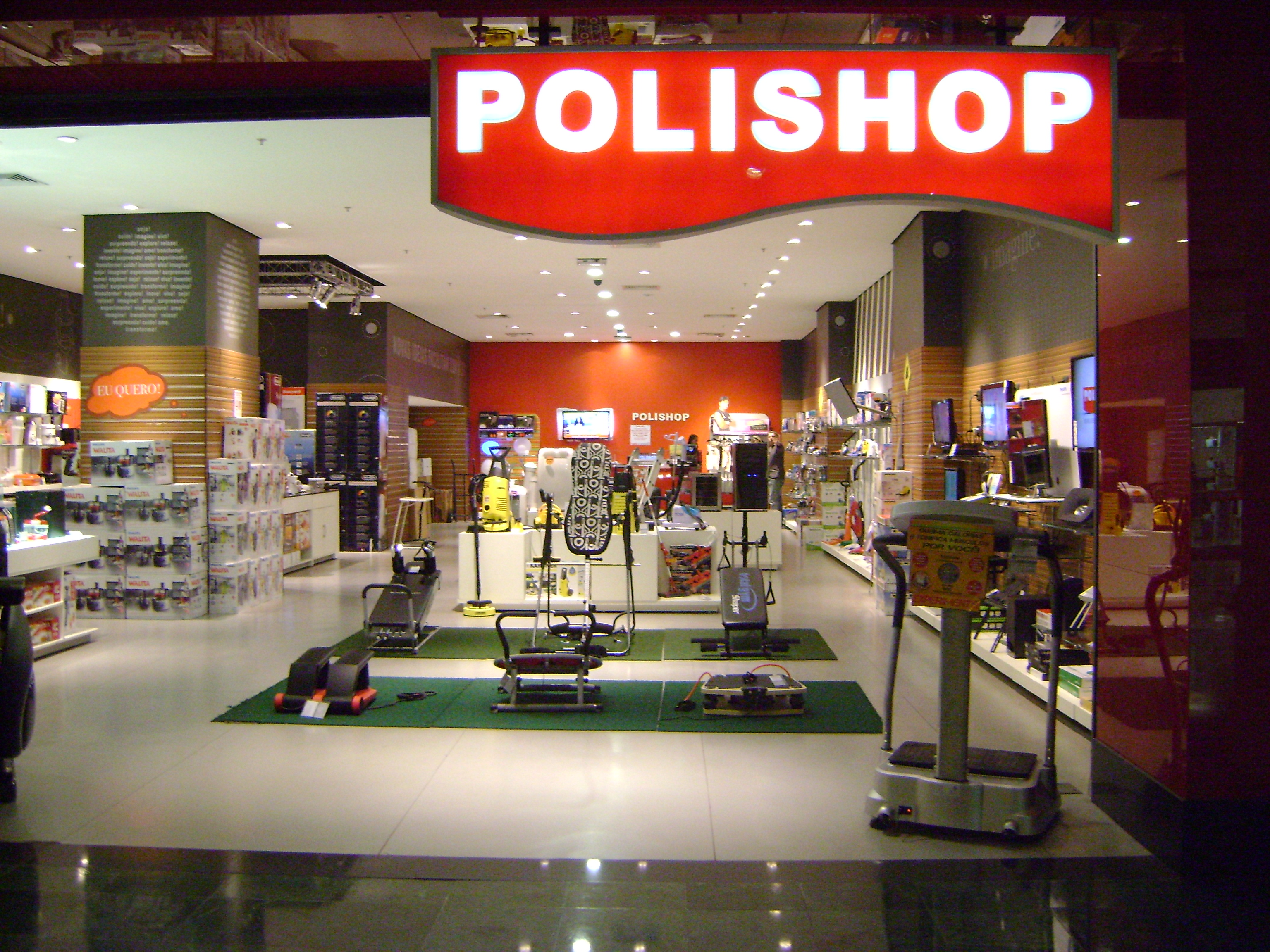 Polishop Store, in Rio Sul Shopping, Botafogo, Rio de Janeiro, Brazil.